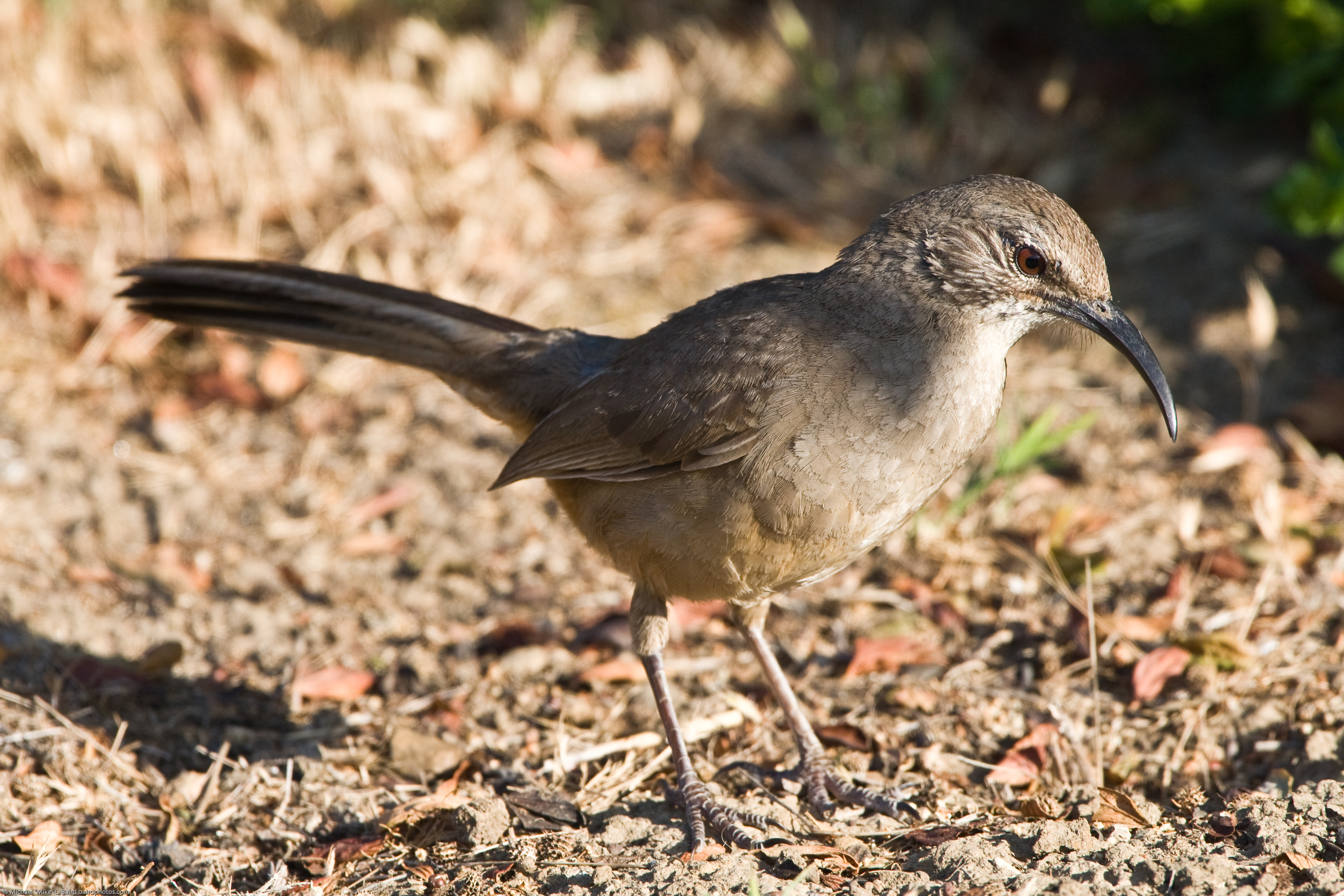 A California Thrasher in Morro Bay, California, USA.